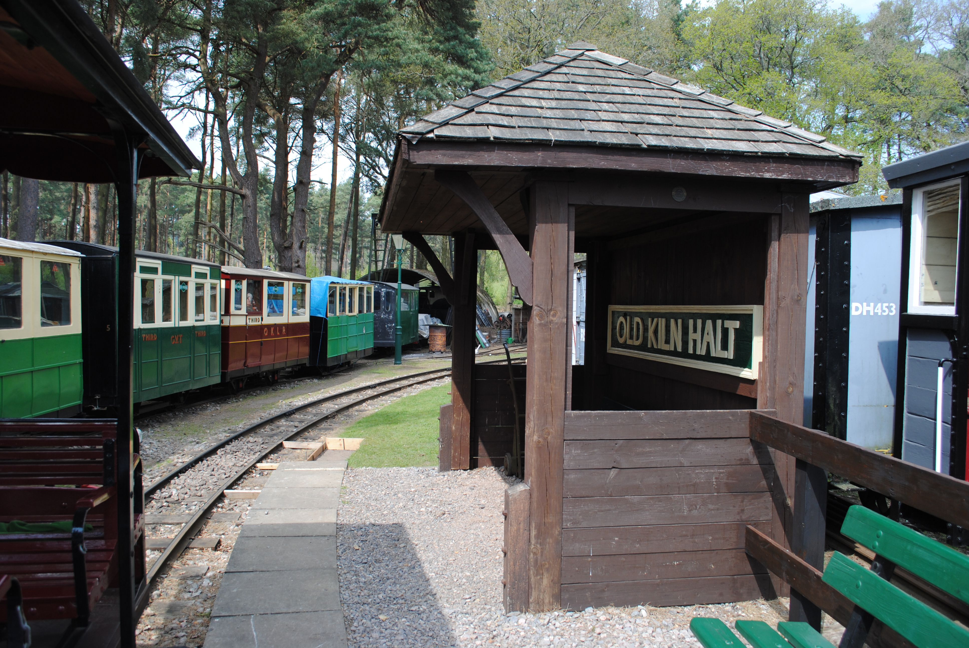 The headquarters and main base of operations on the Old Kiln Light Railway.